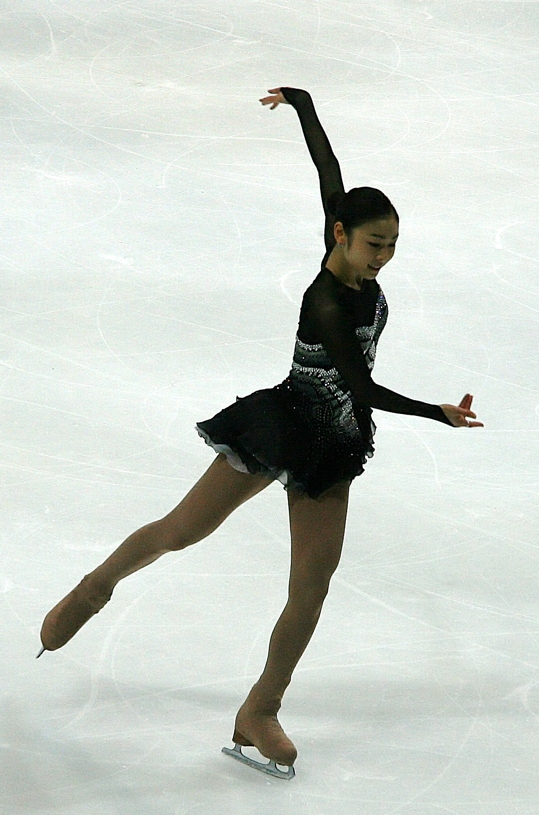 Kim Yu-Na at the 2011 World Figure Skating Championships. FP